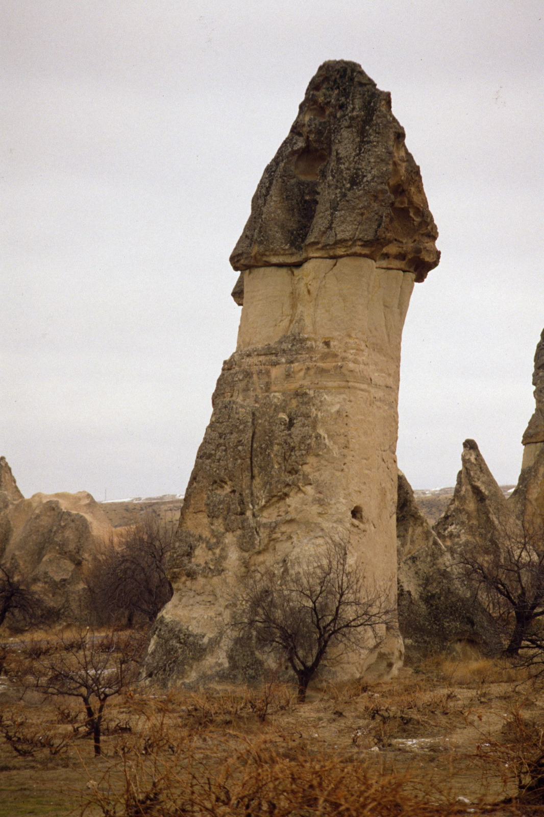 Images from Cappadocia under snow.